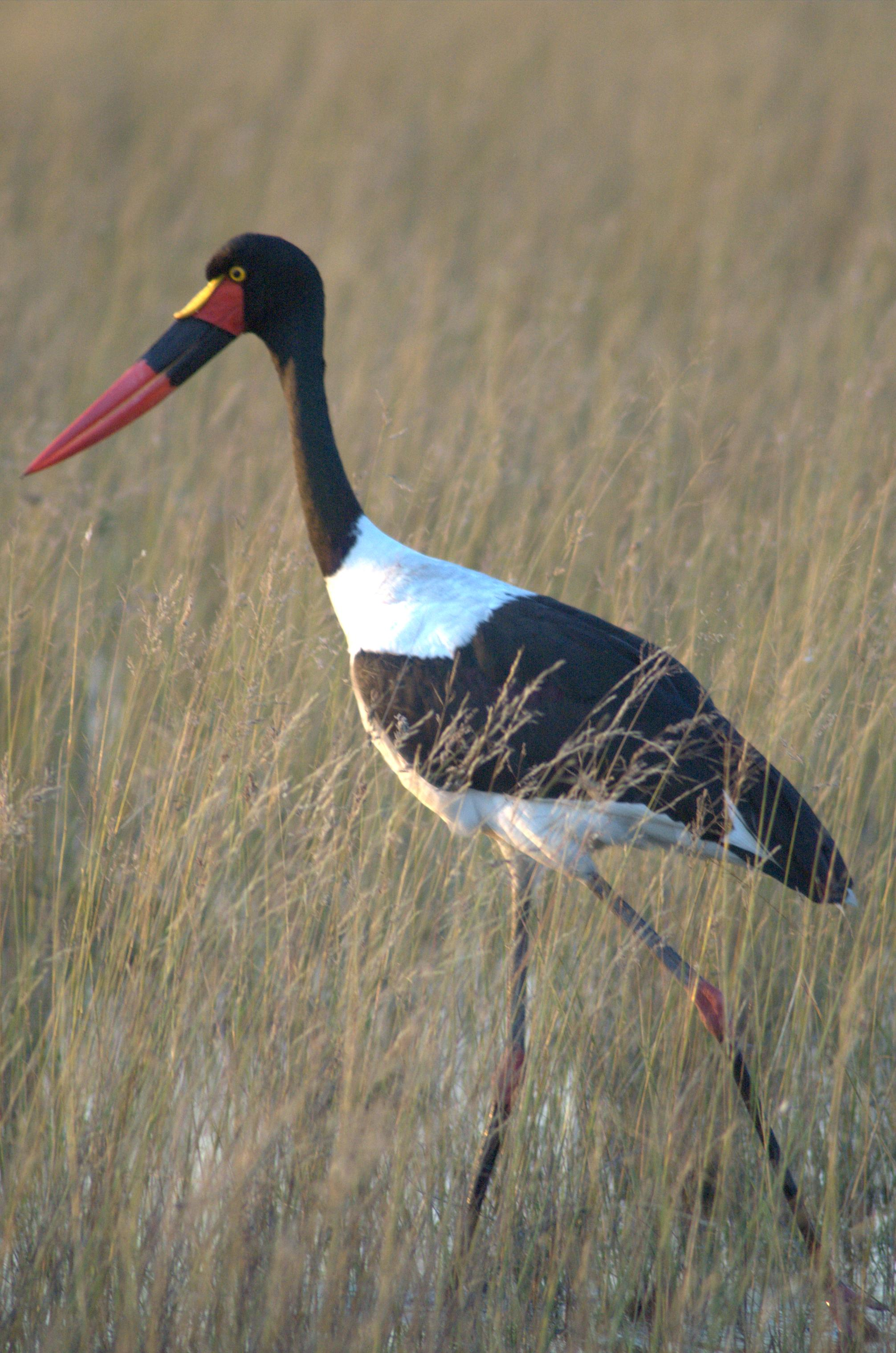 Опис файлу Ephippiorhynchus senegalensis. A Saddle-billed Stork walking in the Okavango Delta. Picture taken in May, 2005. Original is available in raw format (Nikon) under a different license.пан Бостон-Київський 01:17, 17 March 2006 (UTC)